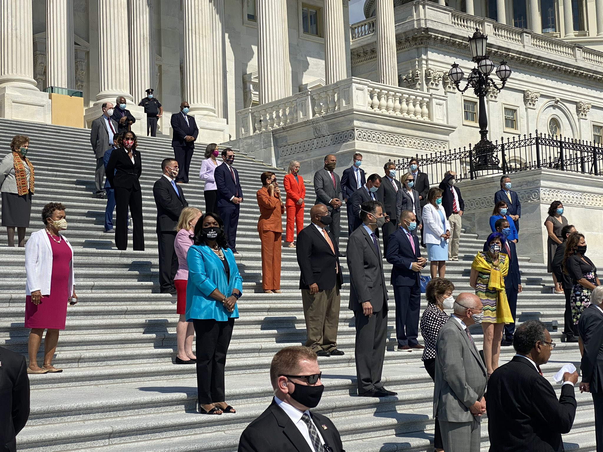 Today I stand with my House colleagues to pass the George Floyd Justice In Policing Act. We need bold change to stop the senseless killing of Black lives at the hands of the police.